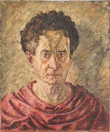 Porträt Maximilian Harden